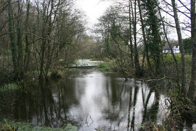 Ulster Canal, Clones Road, Monaghan The Ulster Canal is a disused canal running through parts of Counties Armagh, Tyrone,Fermanagh and Monaghan. Built between 1825 and 1842 it was never an economic success & was eventually abandoned in 1931. This section of waterway is on the outskirts of Monaghan Town & runs parallel to the Clones Road on the right hand side as you approach the town coming from Clones direction.